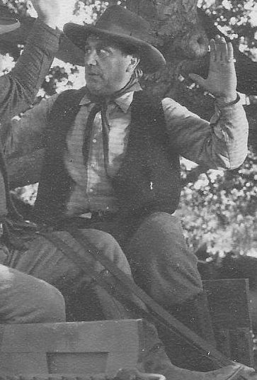 Dick Foran, Monte Montague, and Henry Otho in Trailin' West (1936)